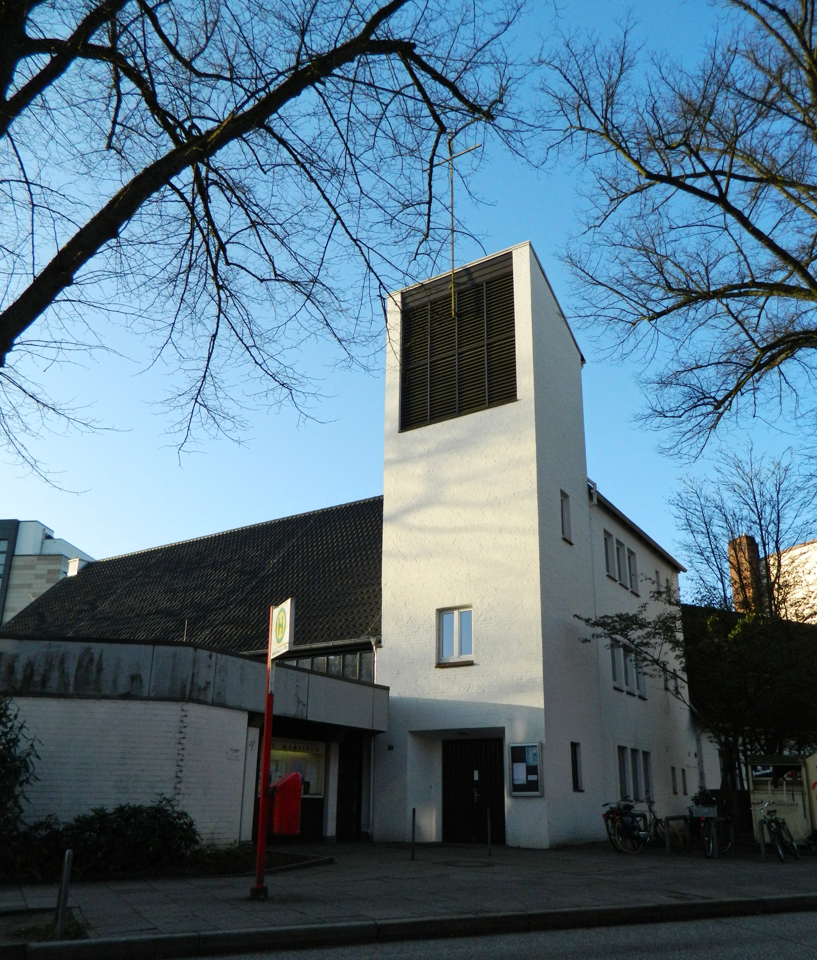 Ev.-Luth.St. Martinus